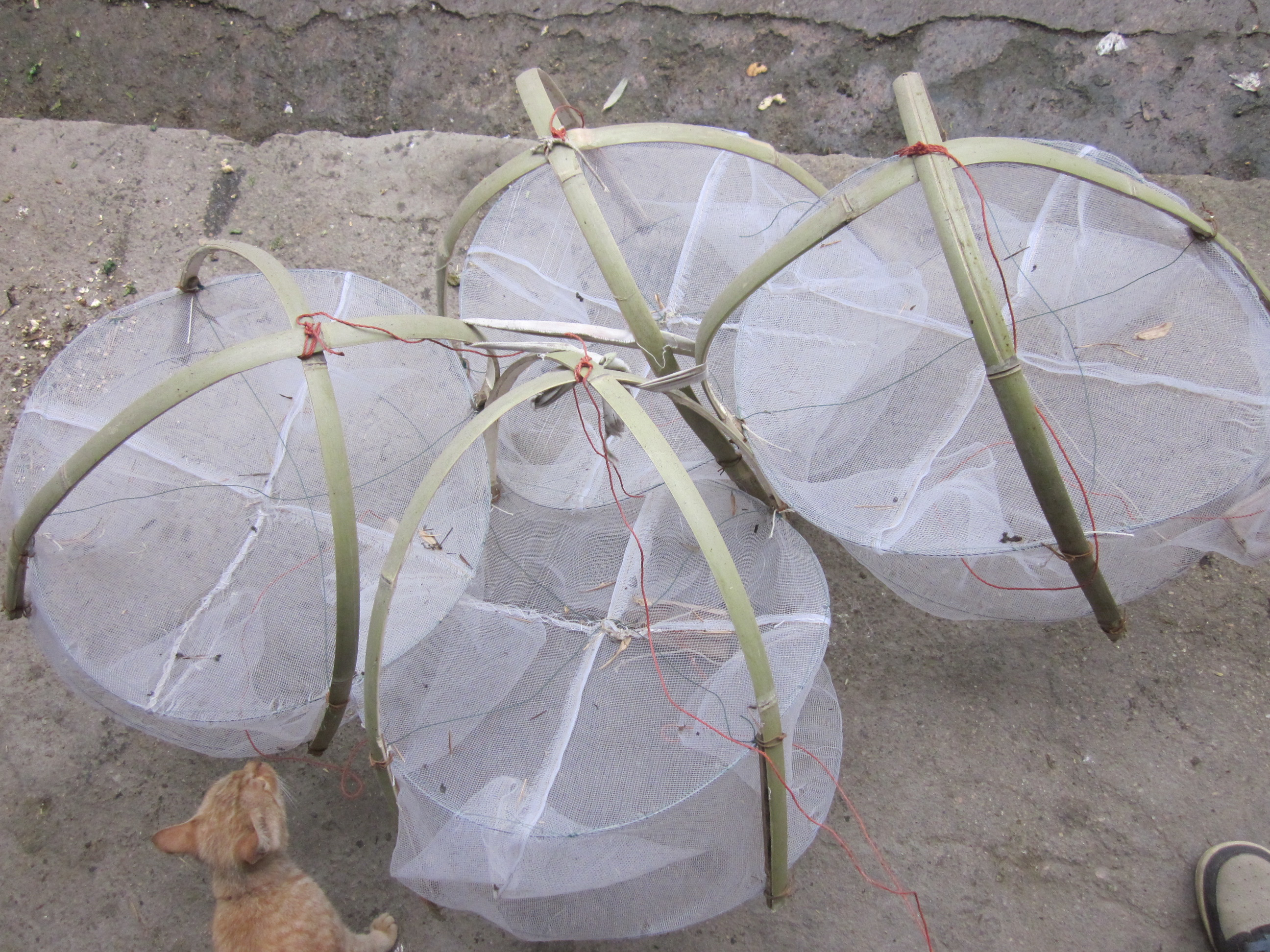 Yulong, it is a kind of fishing gear.